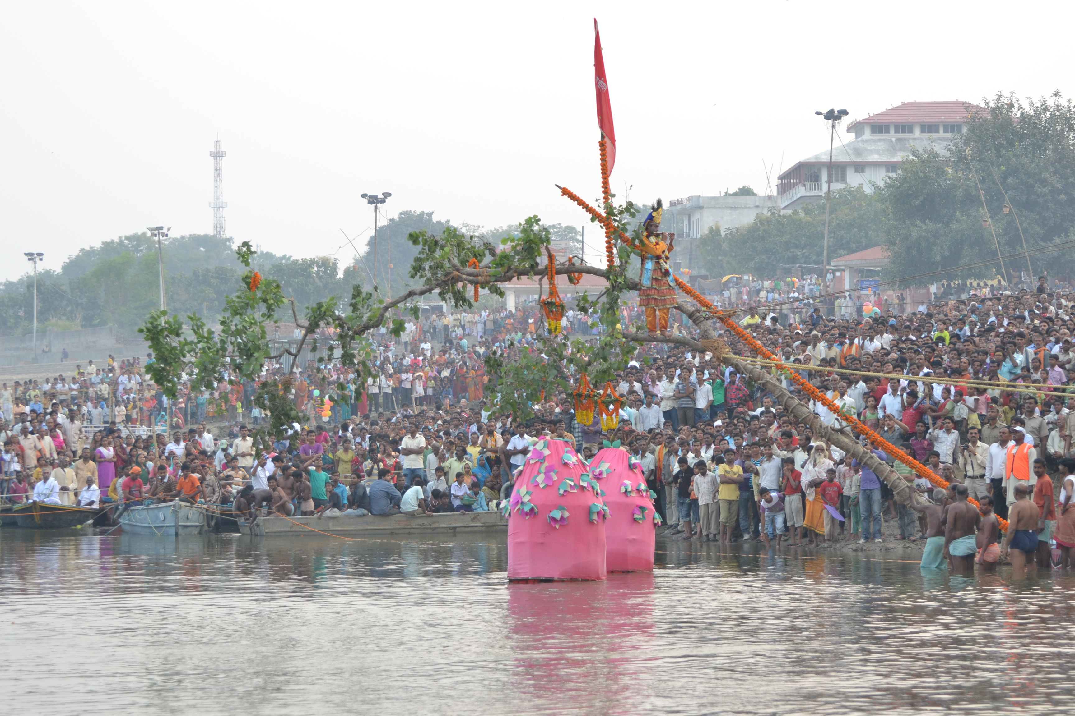 Nag Nathaiya is a festival celebrated in Varanas